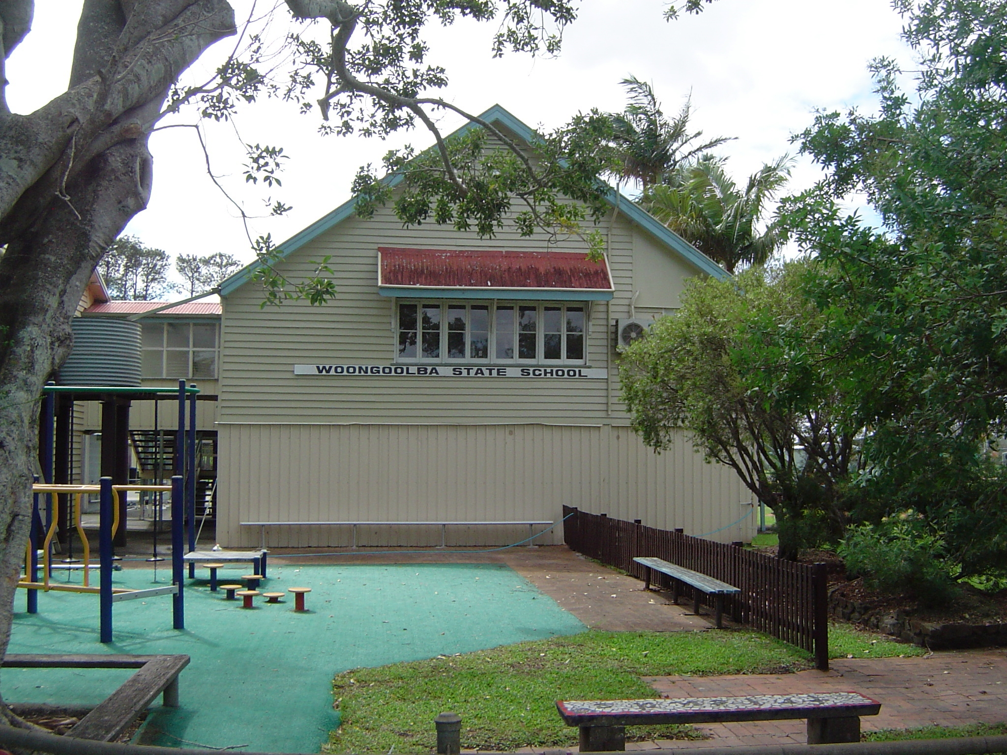 Photo of Woongoolba State School at Woongoolba, Queensland, Australia.